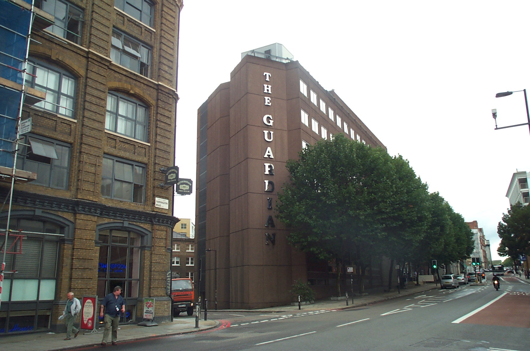 The Guardian's headquarter in London, 2004-08-27. Copyright 2004 © Kaihsu Tai.